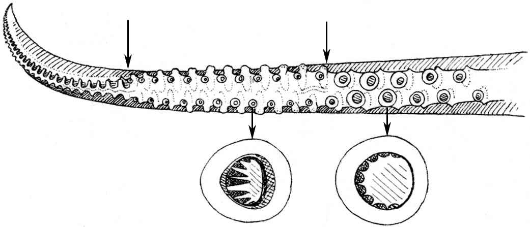 Hectocotylus (right arm IV) of Illex coindetii male